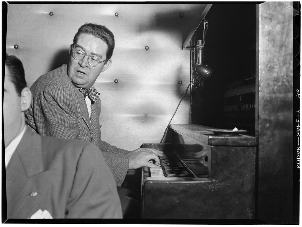 Joe Sullivan, New York, N.Y.